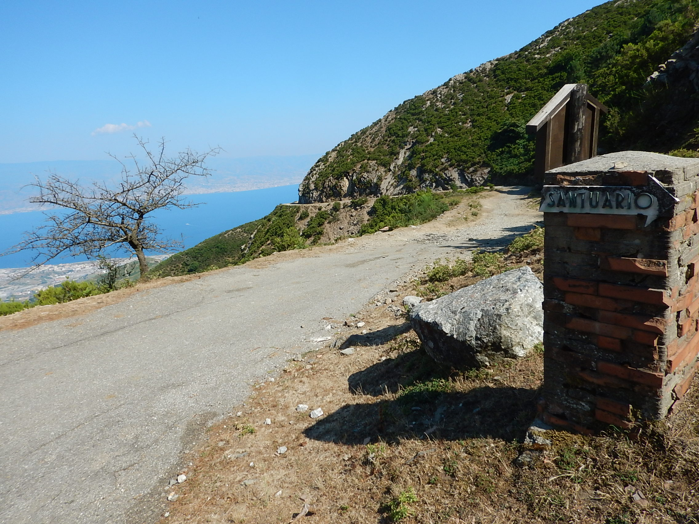 the Dorsale Peloritana start above the strait of Messina, Sicily